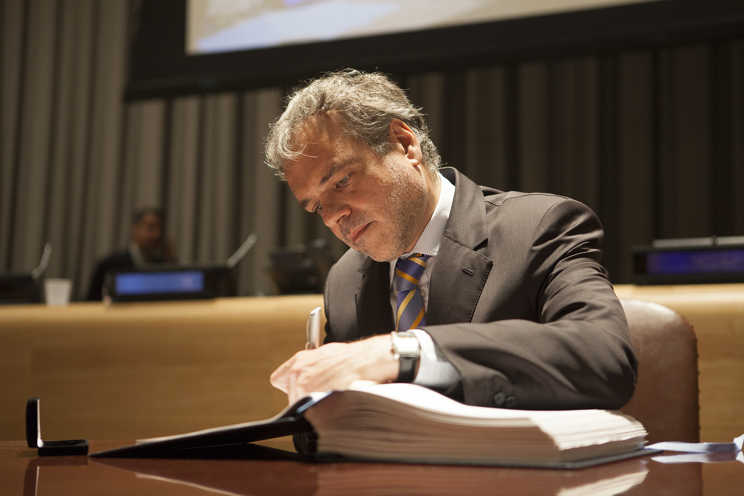 The Uruguayan Permanent Representative to the UN, José Luis Cancela, signs the Arms Trade Treaty At United Nations headquarters in New York, June 3, 2013. INSIDER IMAGES/Keith Bedford (UNITED STATES)